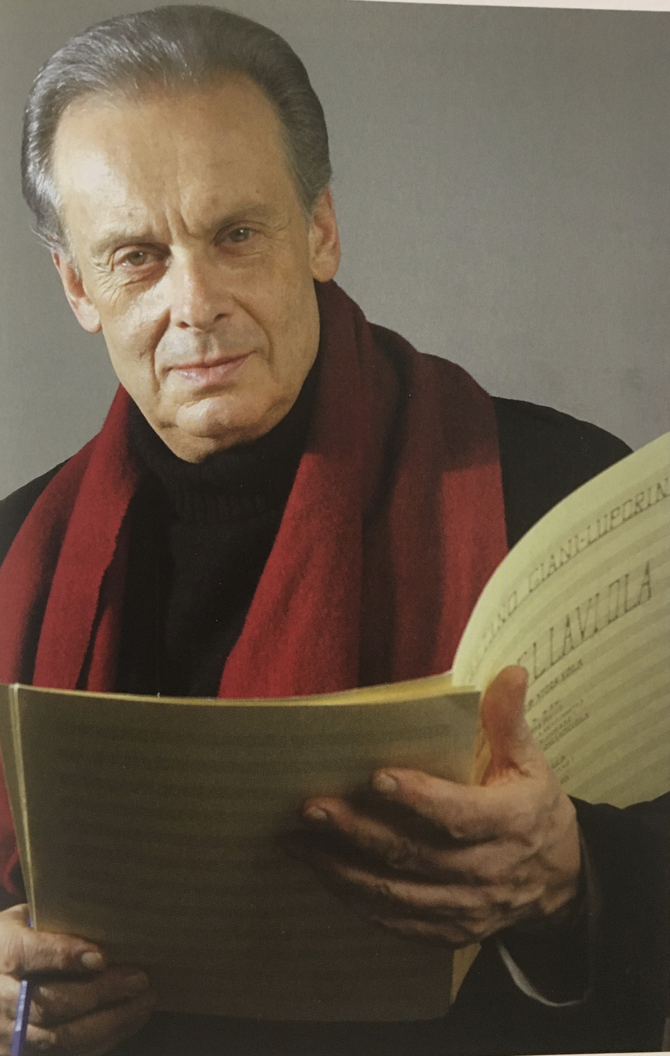 Gaetano Giani Luporini (2005)